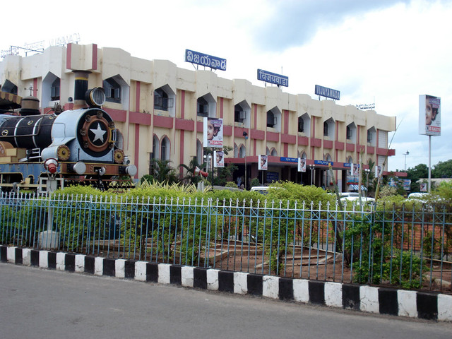 The image on a railway station in south india is my own work and it is purely coincidential if anyone claims it.